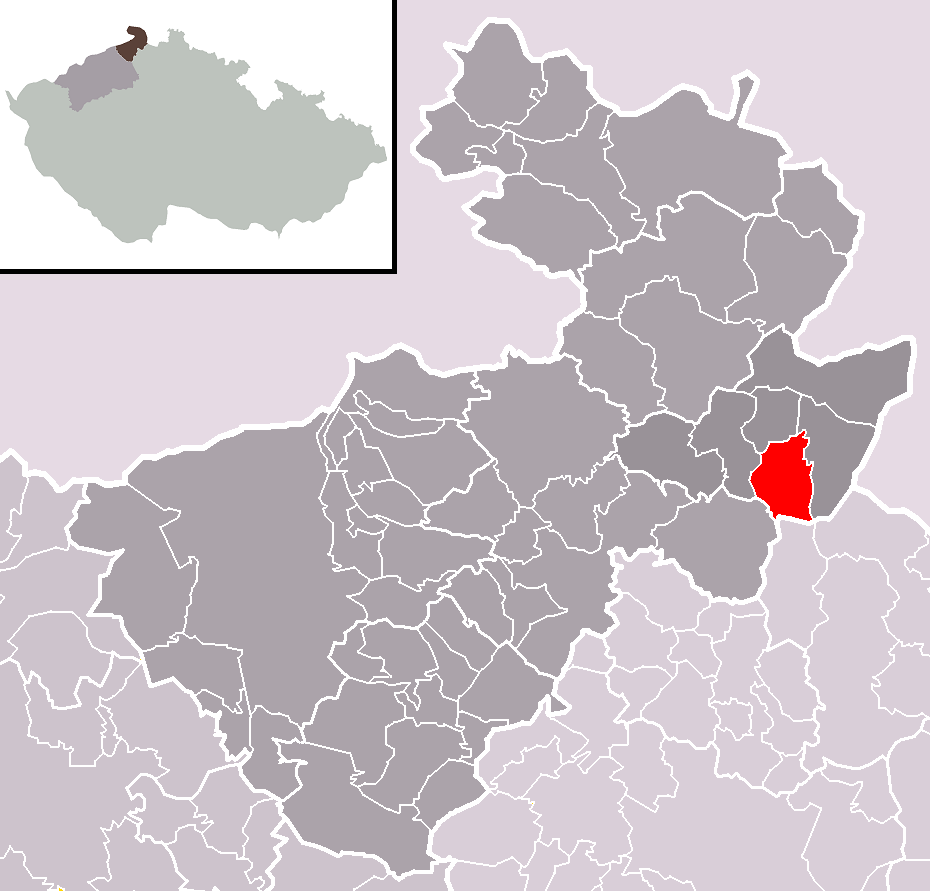 Location of Jiřetín pod Jedlovou municipality within Děčín District and administrative area of Varnsdorf as a Municipality with Extended Competence.